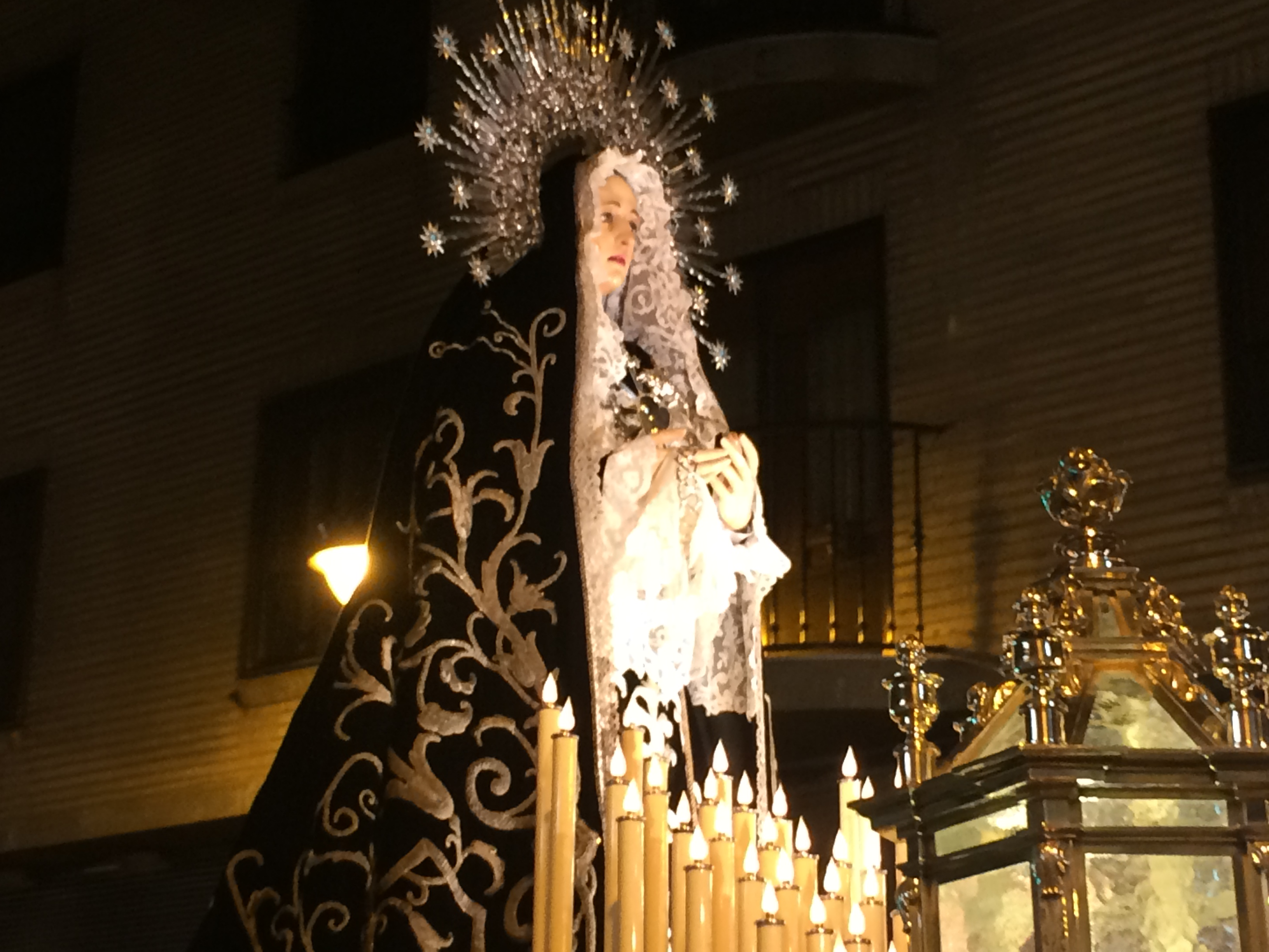 Holy Week procession in Zaragoza (Spain) in 2017